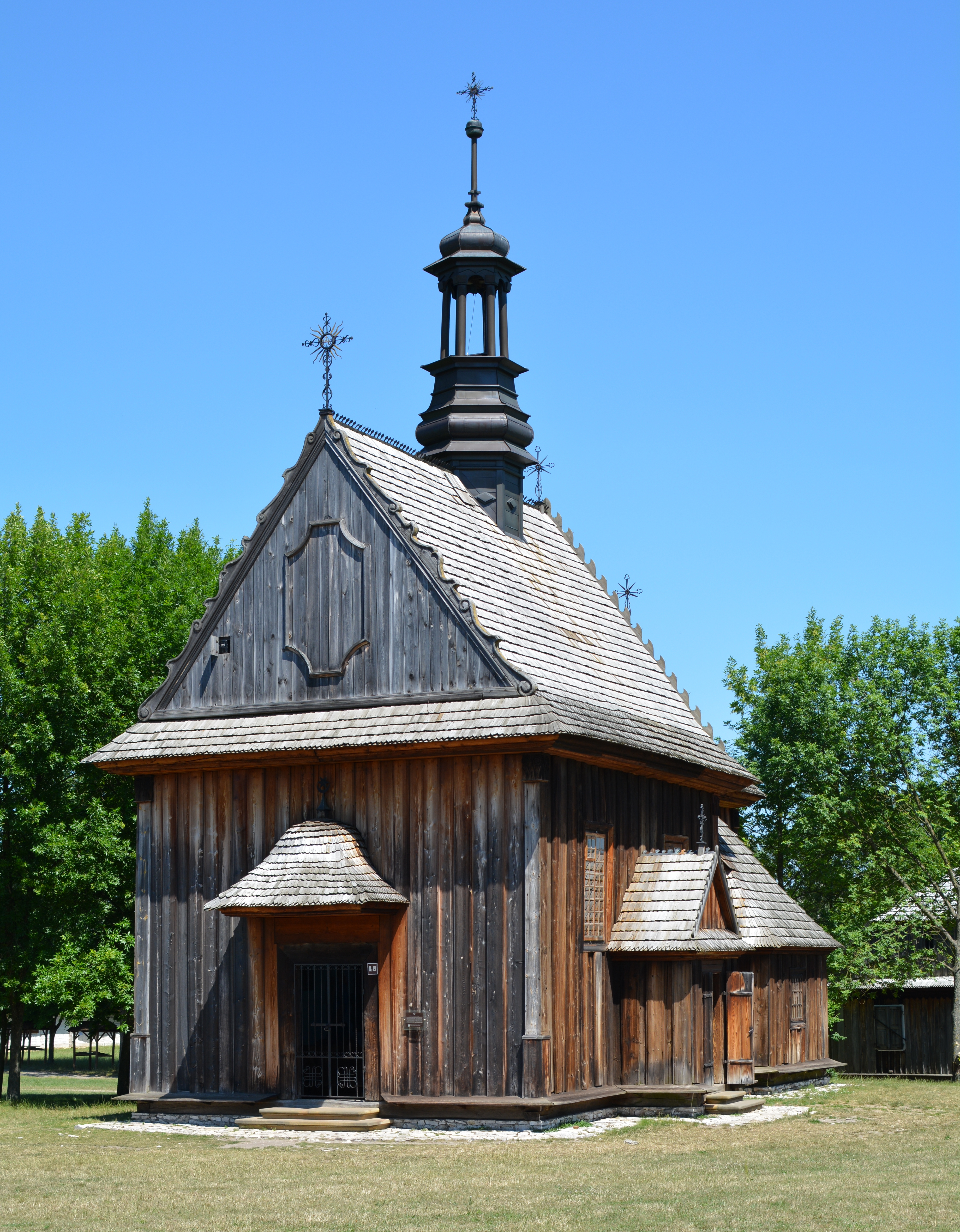 Church in ethnographic park in Tokarnia